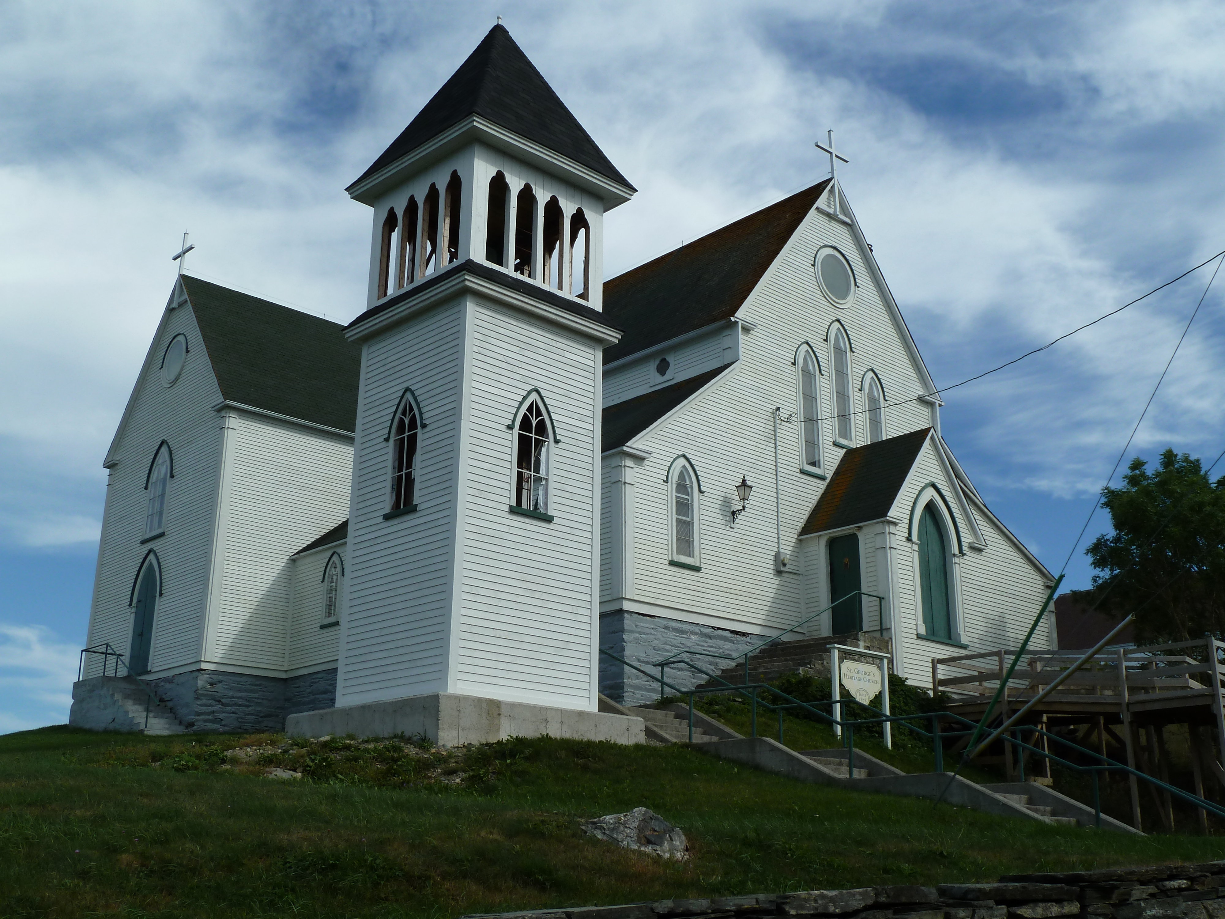 St. George's Anglican Church, Brigus, Newfoundland and Labrador